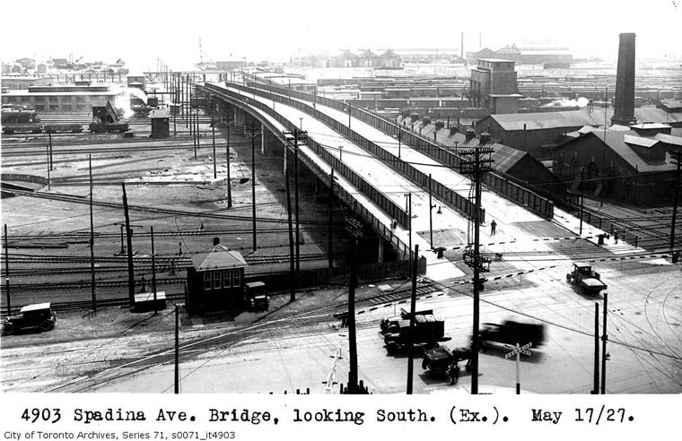 Aerial view of Spadina_bridge at Front 1927-5-27.